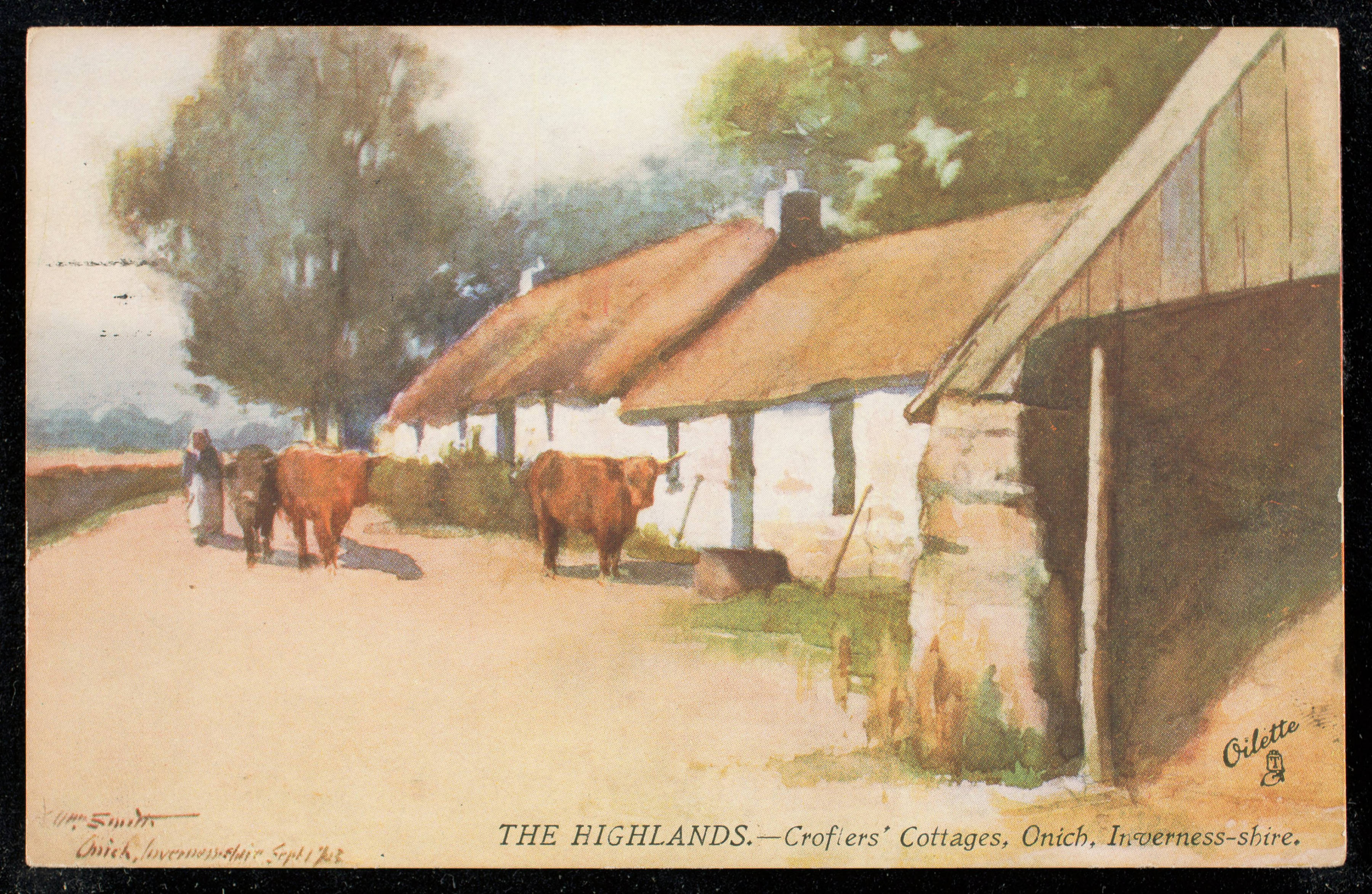 The Highlands.- Crofters ' Cottages, Onich, Inverness-shire